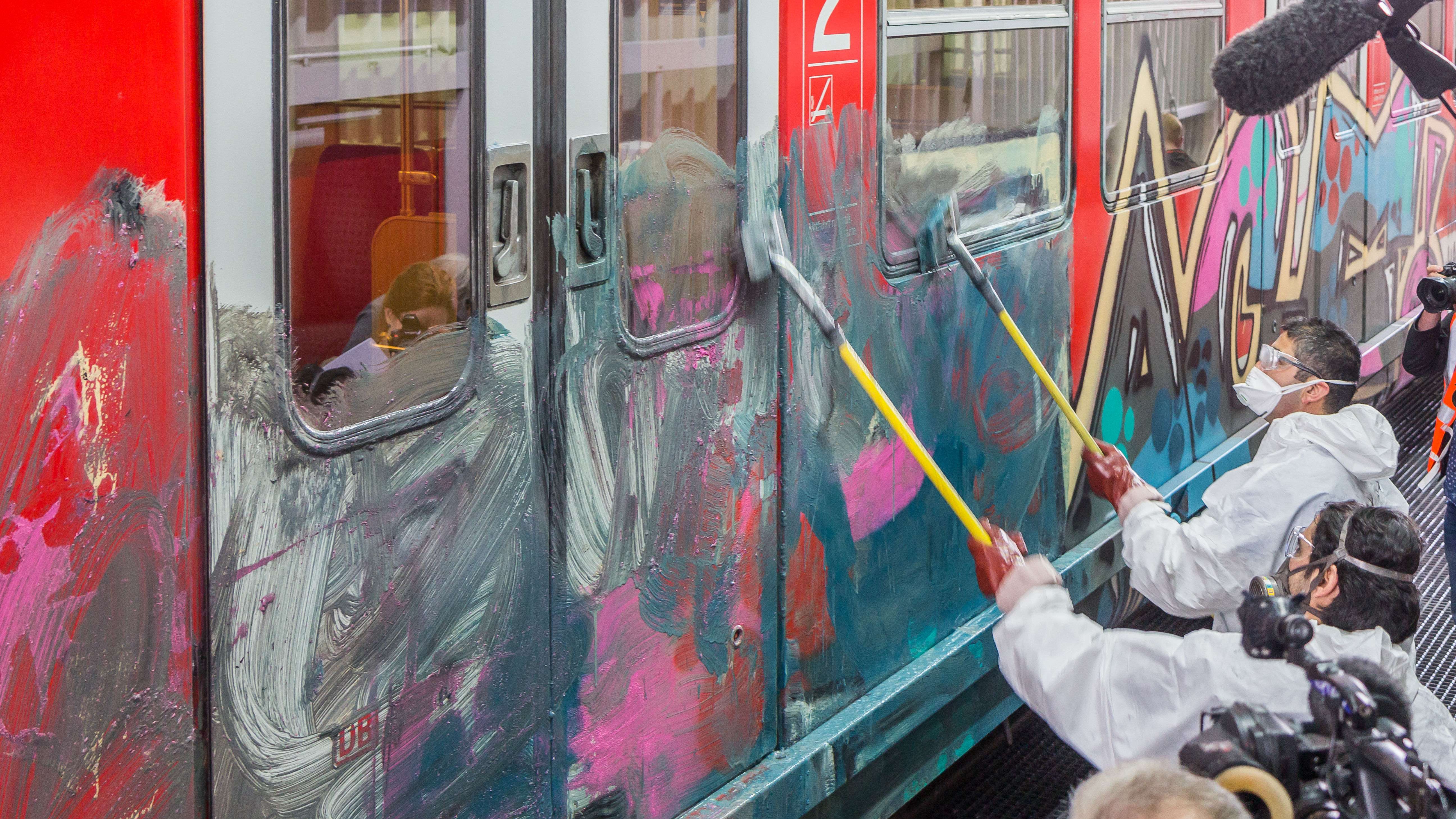 Removal of graffiti from a train in a new service building of Deutsche Bahn in Cologne.